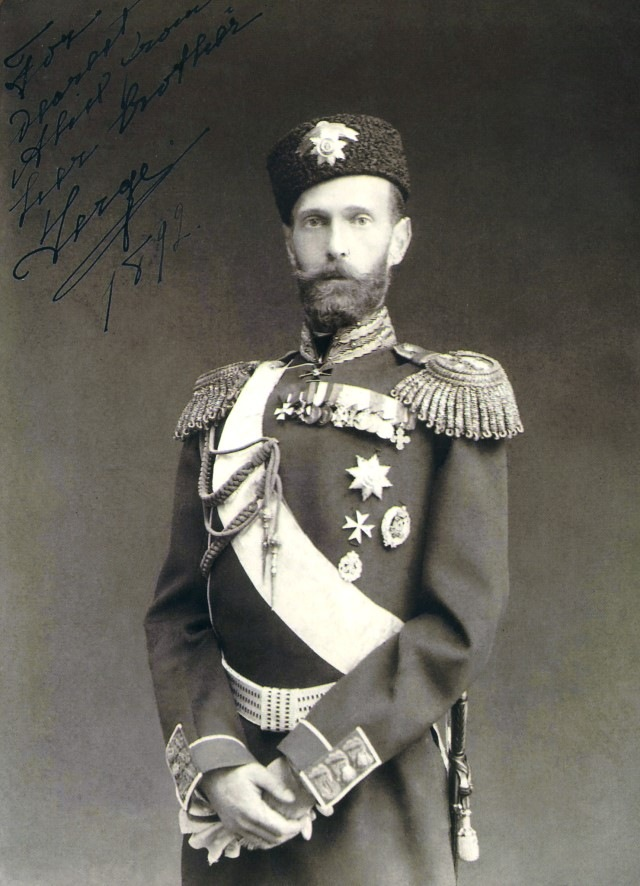 Grand Duke Sergei Alexandrovich of Russia